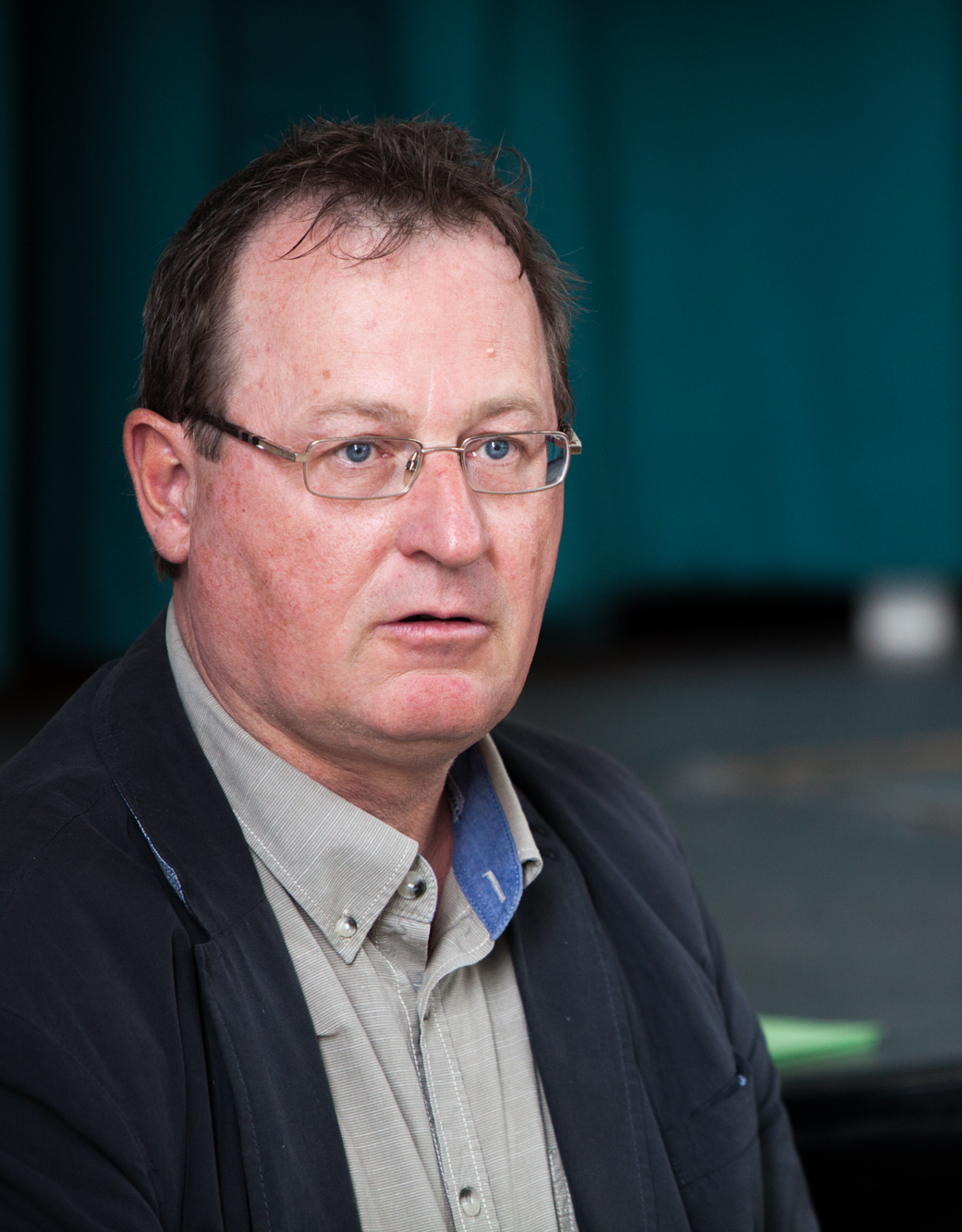 Jens-Holger Kirchner, local politician from Berlin